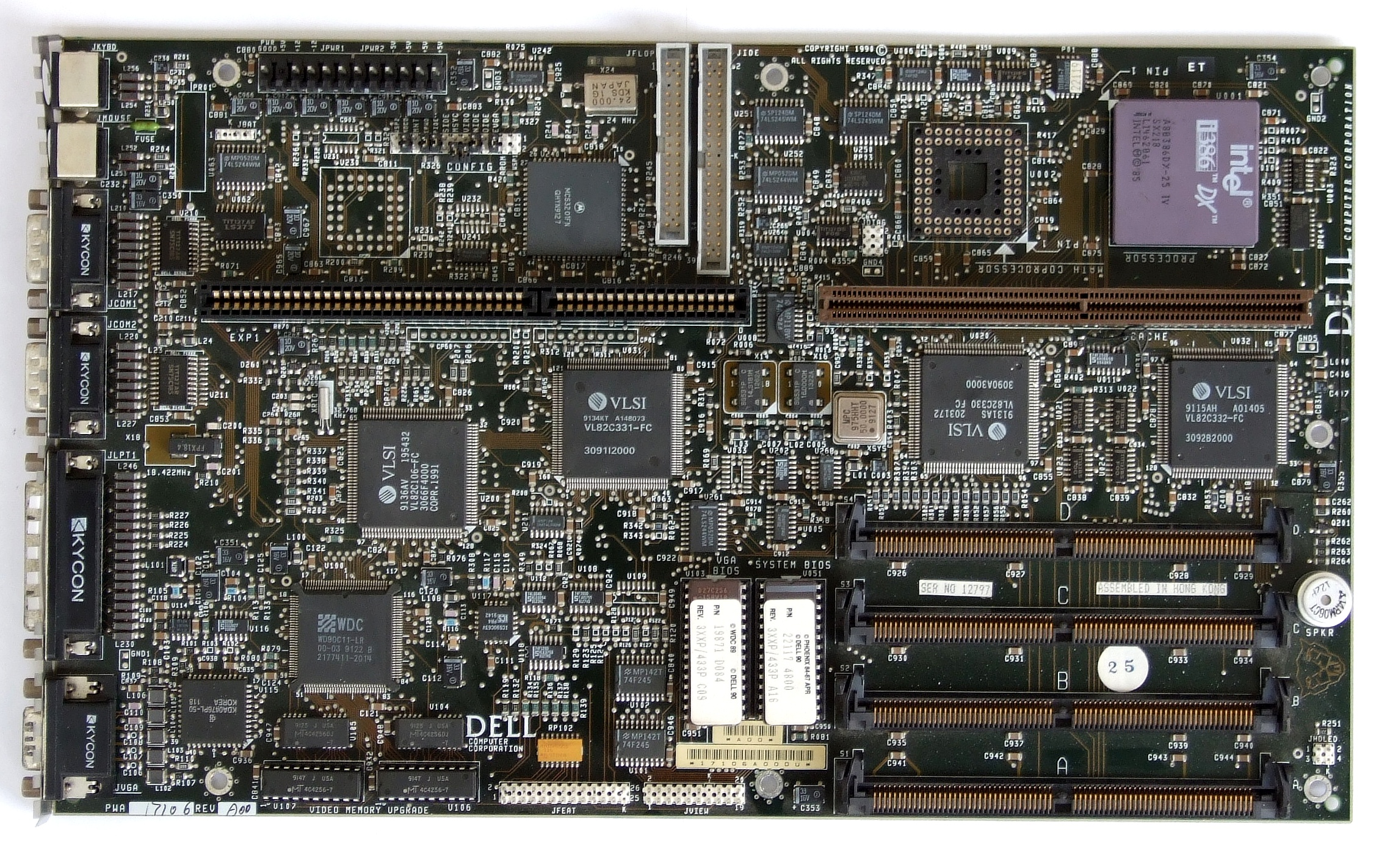 Dell System 325P mainboard.